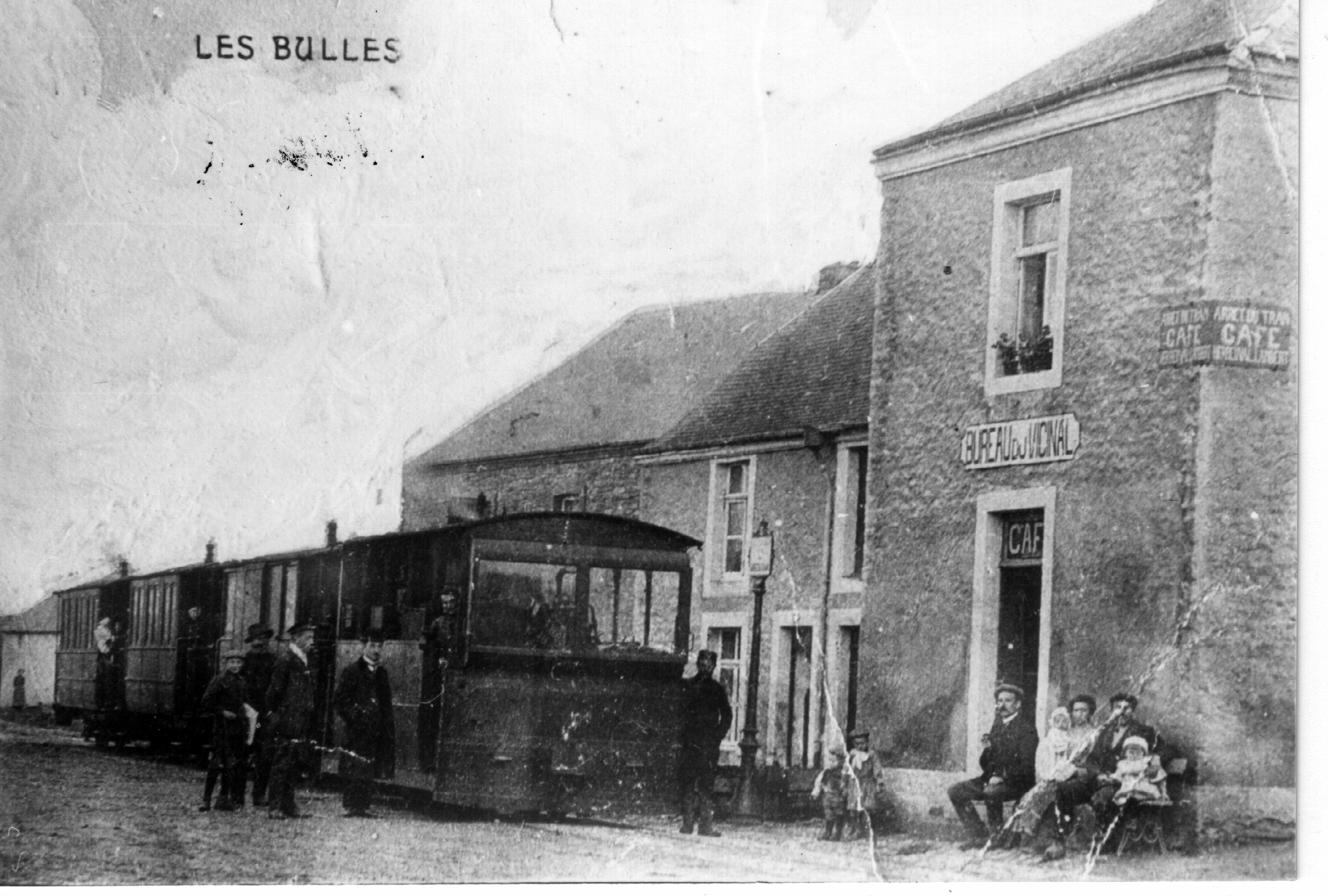 People waiting for the tram in Les Bulles on the vicinal line Sainte-Cécile - Marbehan. (Chiny, Belgique)